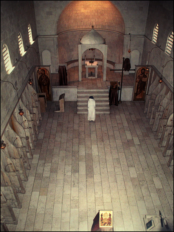 Beit Jamal